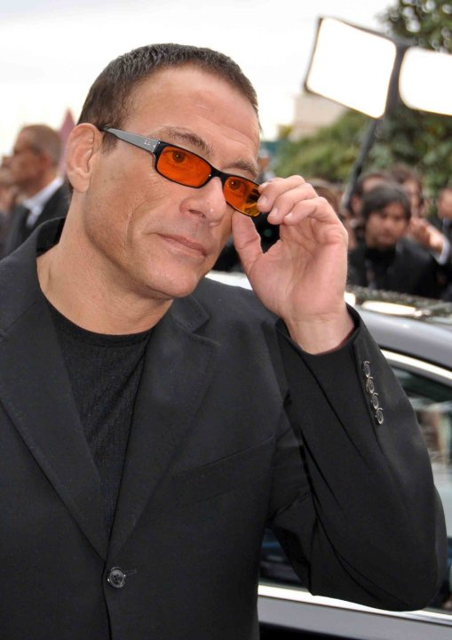 Jean-Claude Van Damme at the Cannes film festival